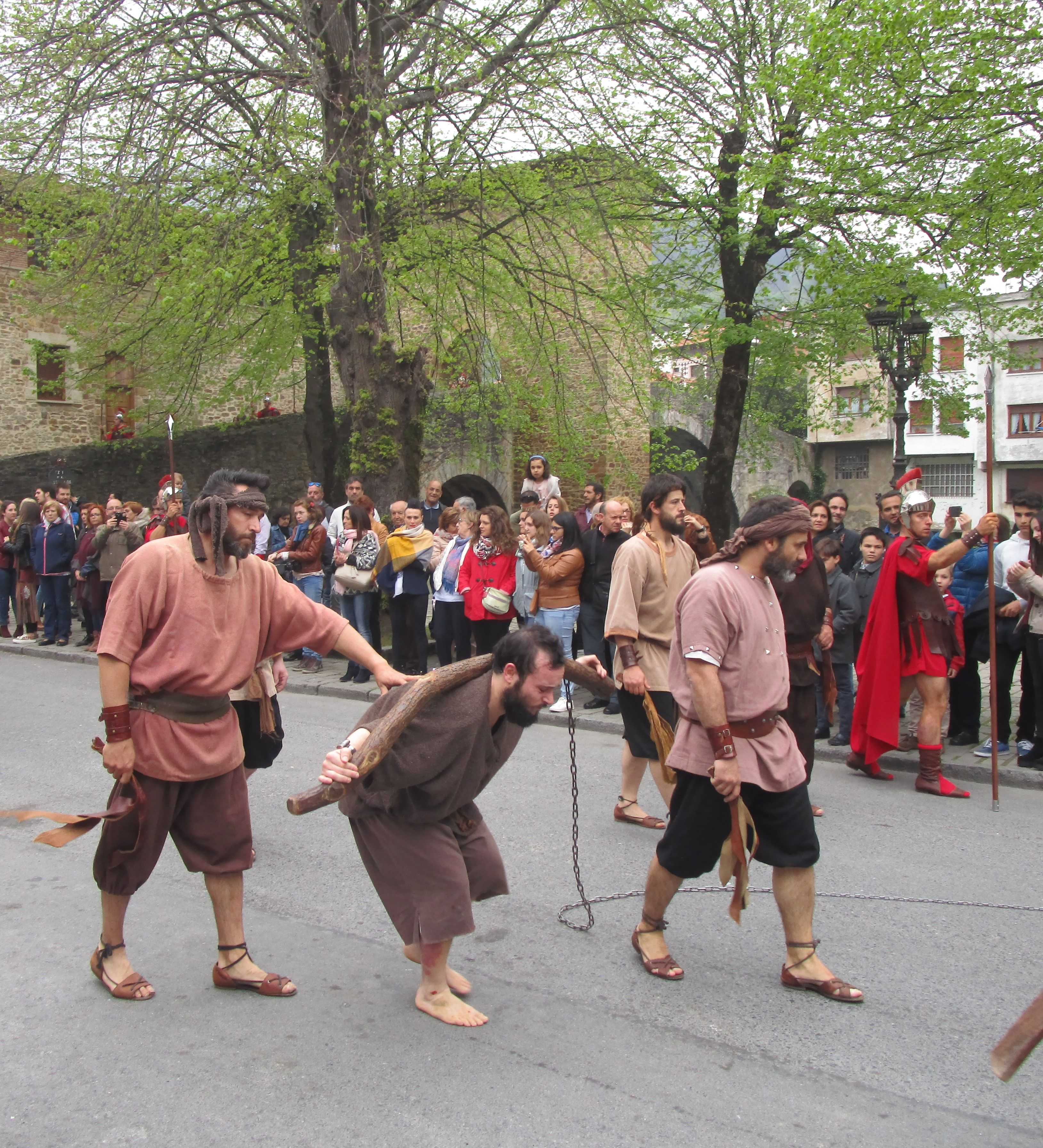 One of the thieves to be crucified besides Jesus, at the Passion play of Balmaseda (Biscay, Basque Country, Spain), on Good Friday 2017. On the background, the Old Bridge of Balmaseda.